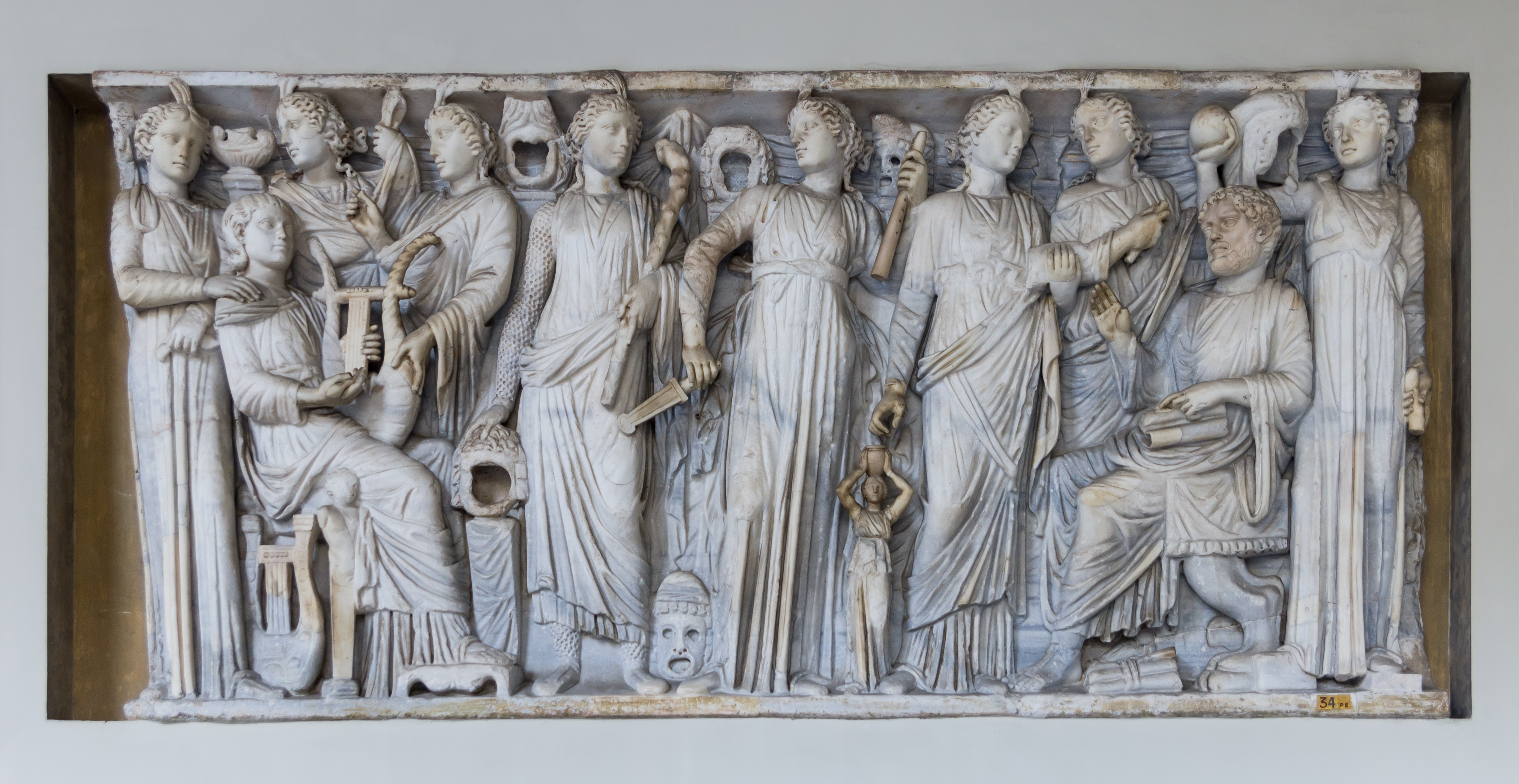 Muses and Poets. Sarcophagus relief. Pio Clementino Museum; Octagonal Court. Vatican Museums Native nameMusei VaticaniLocationVatican CityCoordinates41° 54′ 23″ N, 12° 27′ 16″ E Established1506Web page control : Q182955 VIAF: 141443926 ISNI: 0000 0001 0807 3165 LCCN: n81003002 GND: 235092-0 SUDOC: 032013795 WorldCat institution QS:P195,Q182955